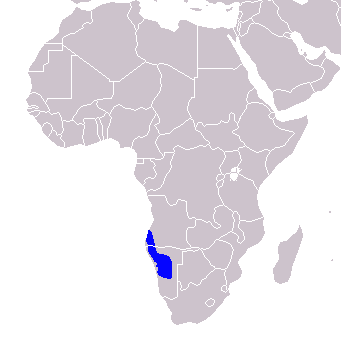 Tockus monteiri - Distribution